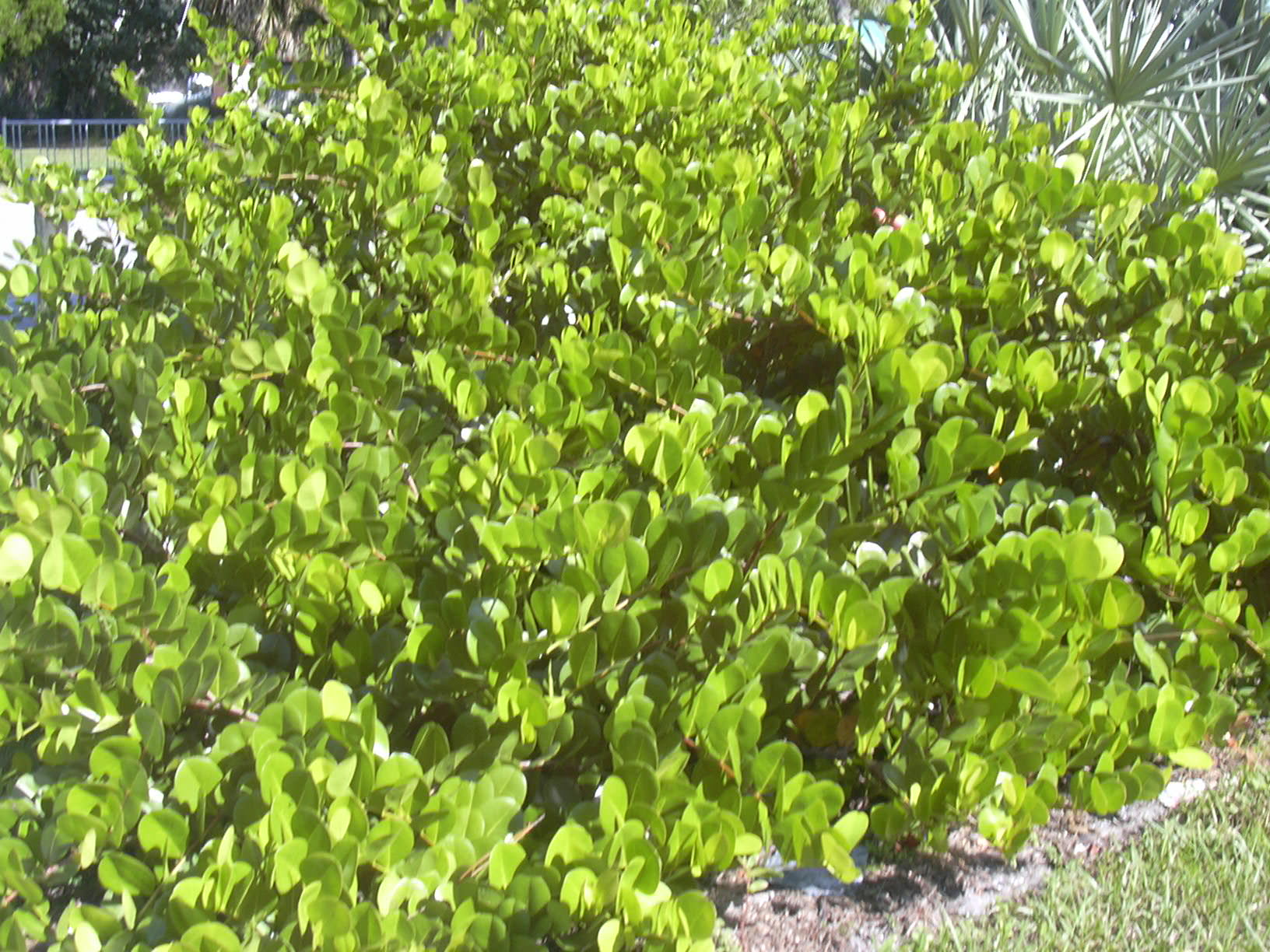 Chrysobalanus icaco (habit). Location: Florida, Turtle Beach